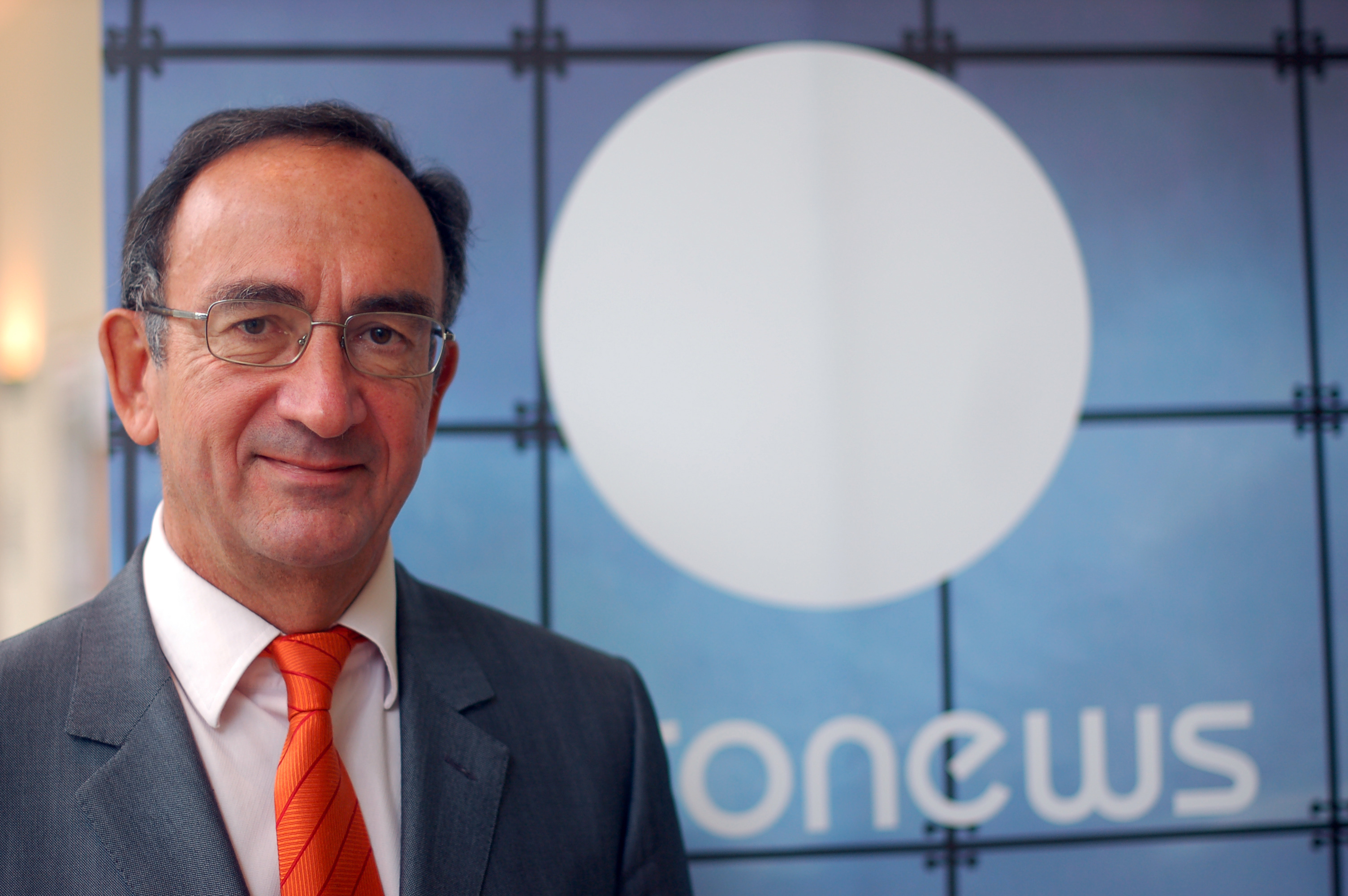 Philippe Cayla, CEO of TV "euronews" since 2003